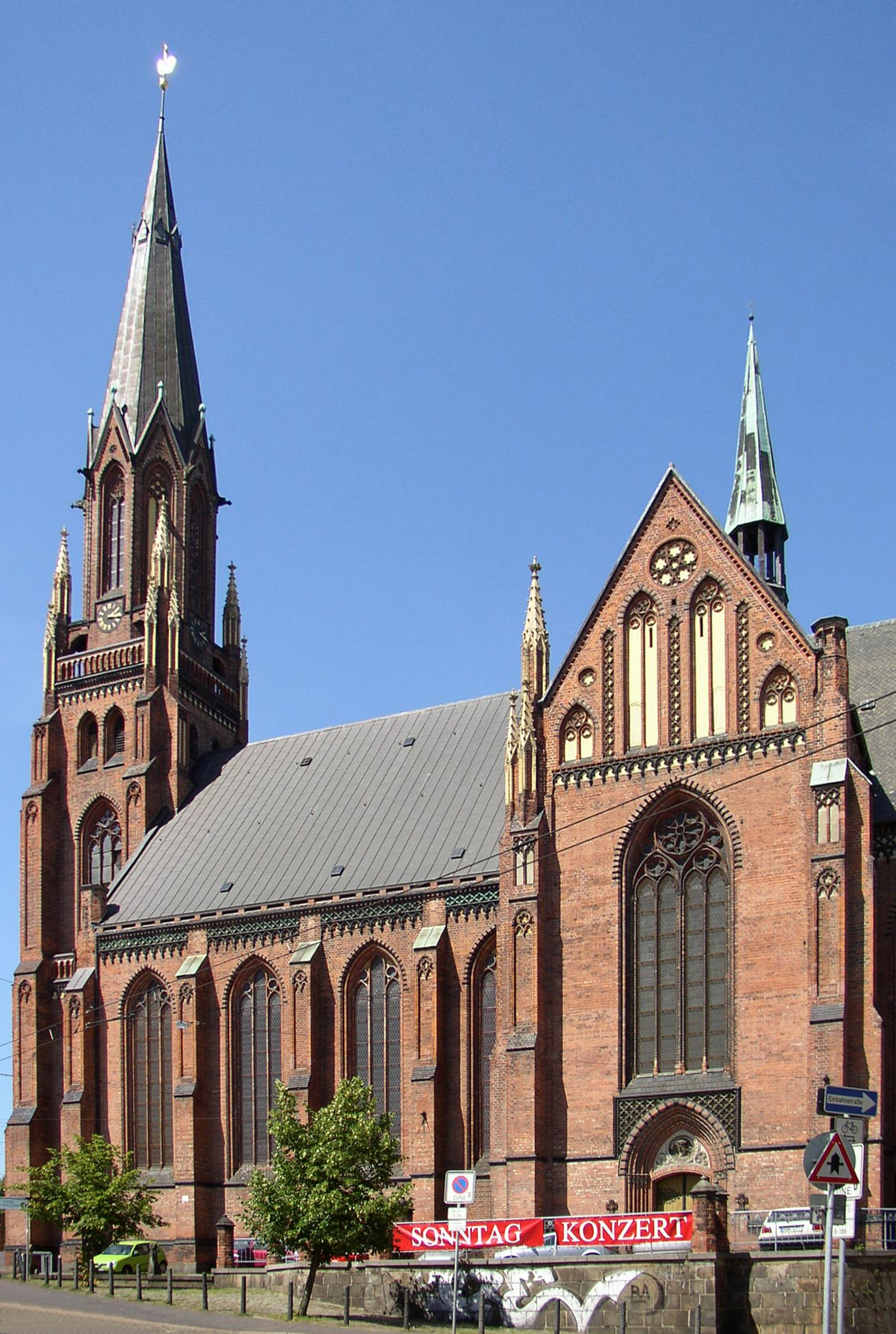 St. Paul's church in Schwerin in Mecklenburg-Western Pomerania, Germany